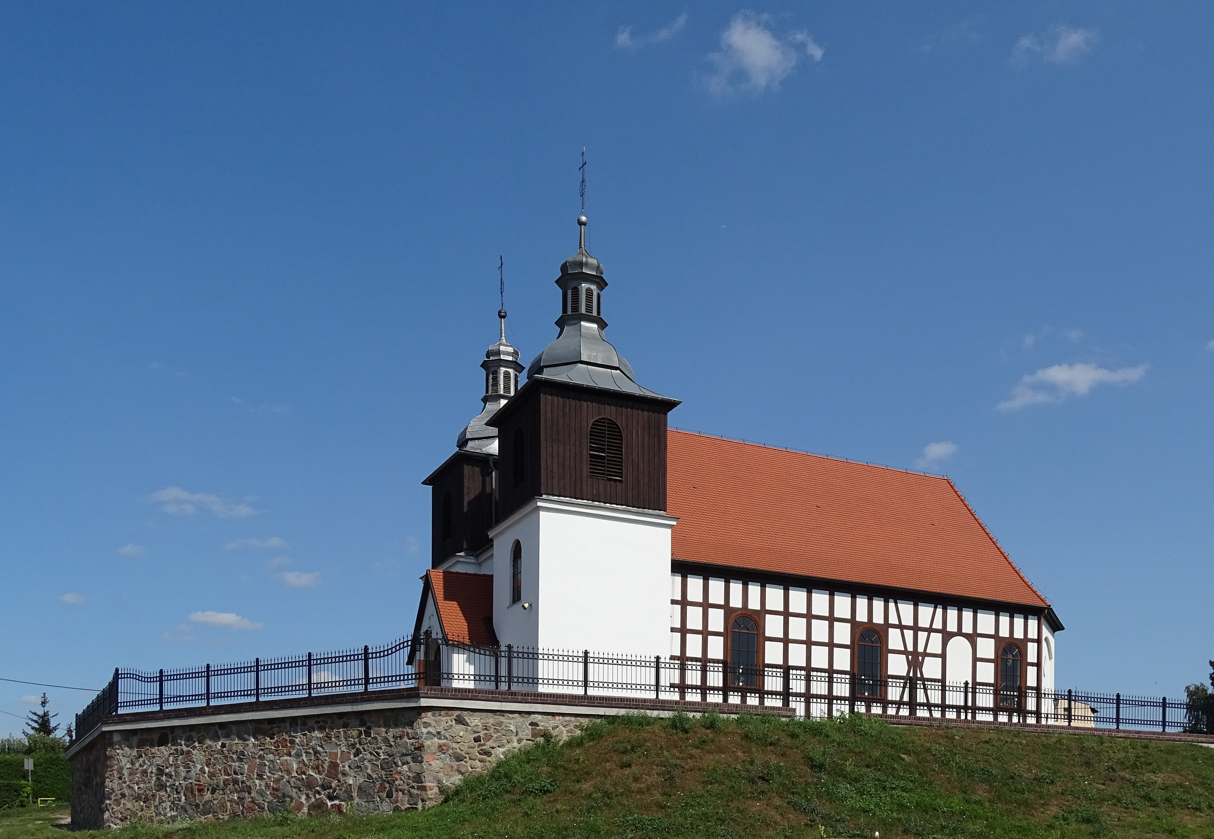 Skoki, Wągrowiec County, Poland. Church of St. Nicholas. Built in the 1737.